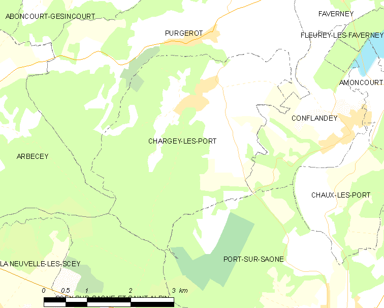 Map of French municipality